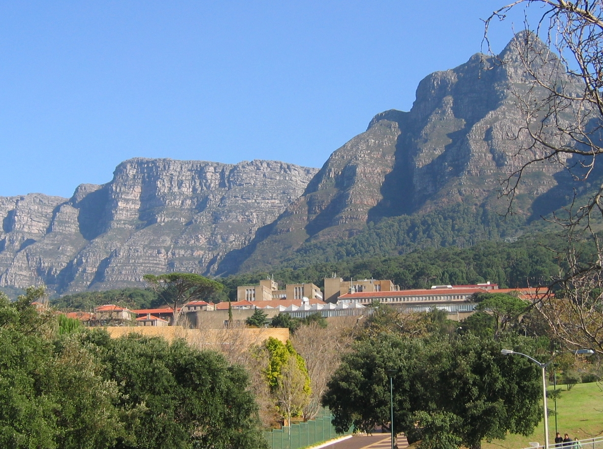 The Upper Campus of the University of Cape Town, seen from Kopano residence, with Devil's Peak and Table Mountain in the background.